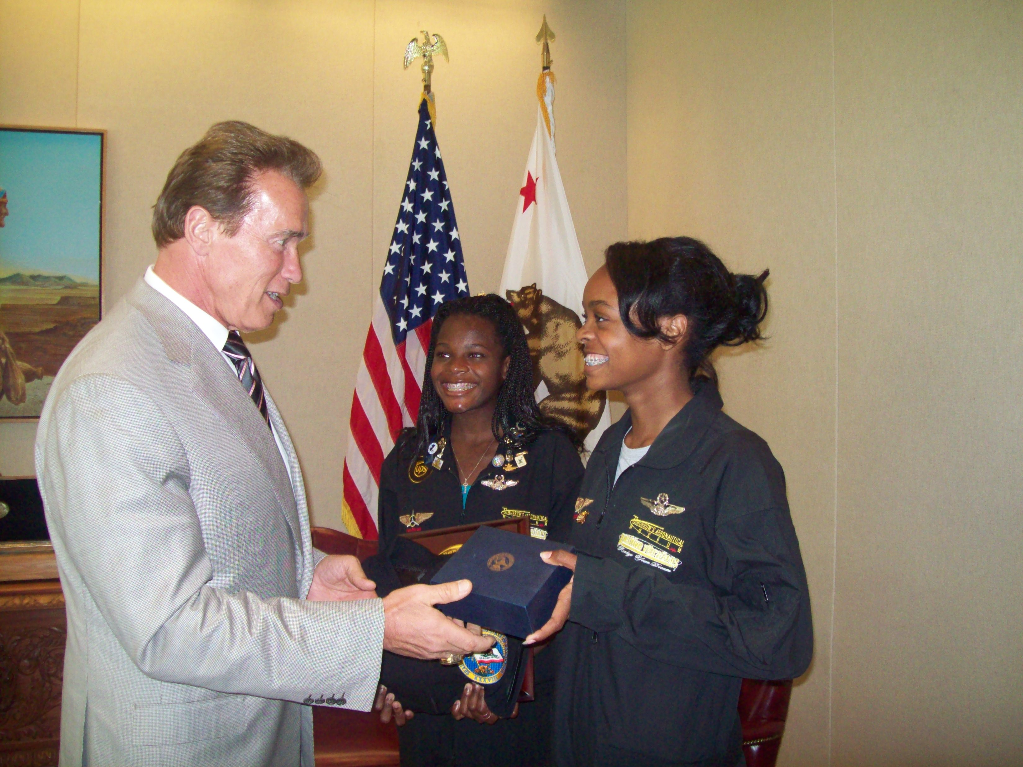 Governor Arnold Schwarzenegger with TAM students Kimberly and Kelly Anyadike